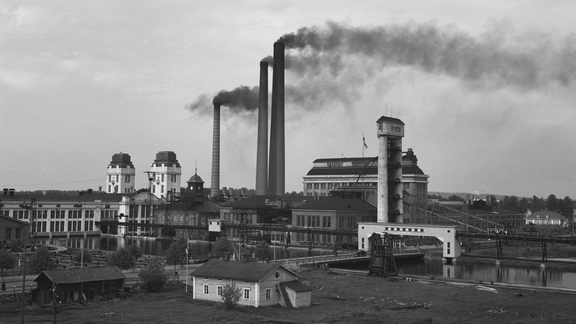 A. Ahlström Ltd paper mill in Varkaus, Finland, 1930.